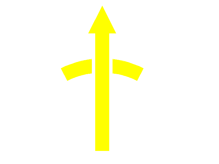 Mark of Ww2 GermanDivision Panzer 20 during WWII- Variant